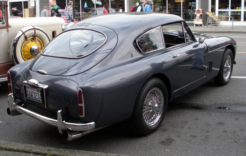 Photo taken at the Greenwood Car Show in Seattle Washington.